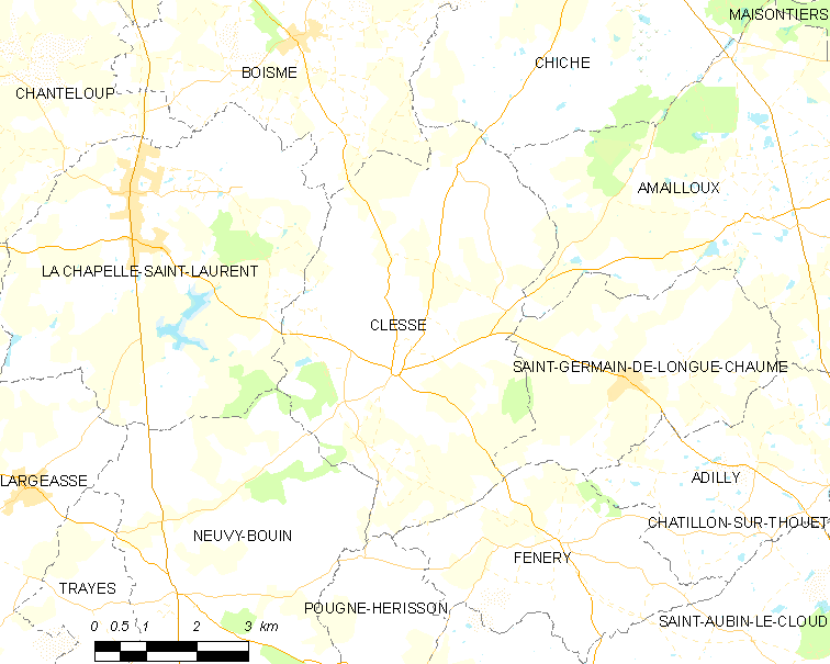 Map of French municipality Clessé